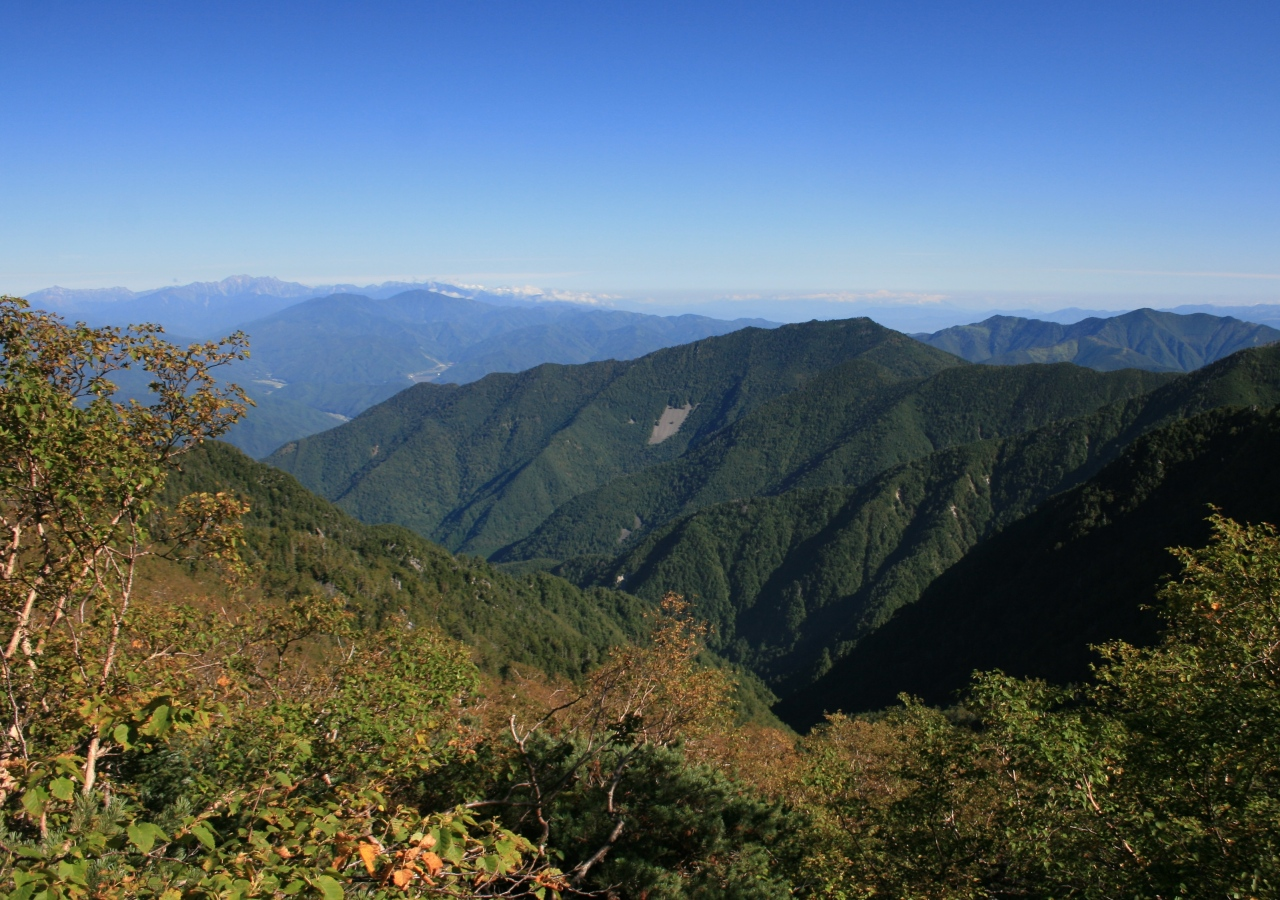 Oodanairiyama_from_Kisokoma_2010-9-26